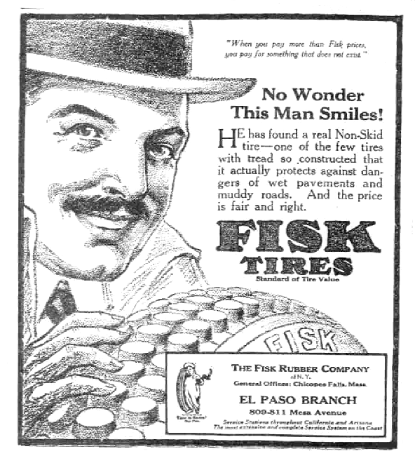 Newspaper ad for Fisk Tires, showing a sample of the product.